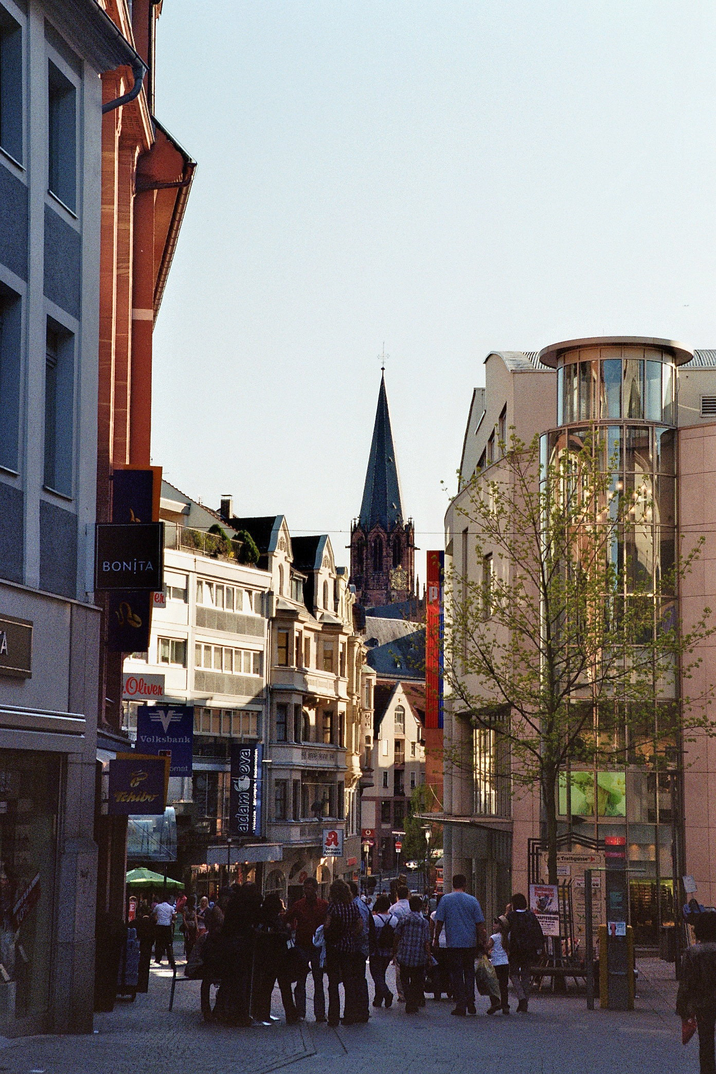 Herstallstrasse shopping mall in Aschaffenburg, Bavaria/Germany